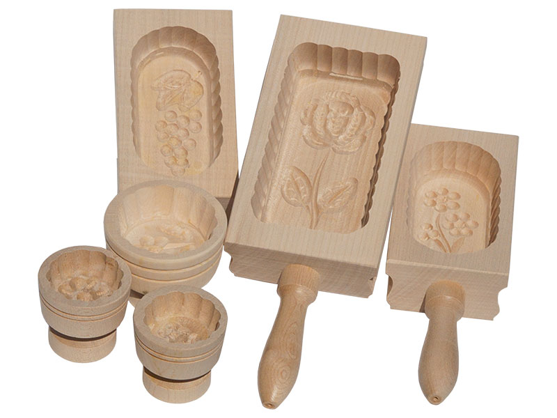 Wooden butter moulds